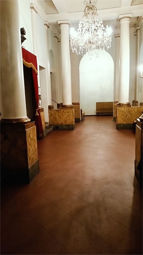 Foyer